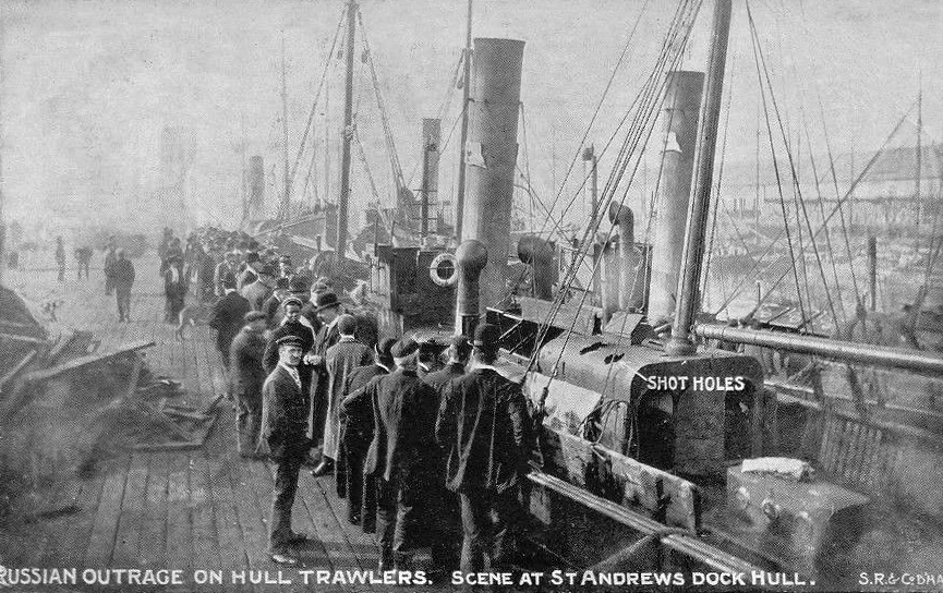 Russian Outrage on the Hull fishing fleet on 22 October 1904, otherwise known as the 'Dogger Bank incident', the 'North Sea Incident', or the 'Incident of Hull', showing shell-damaged returned trawlers in St Andrews Dock, Hull.